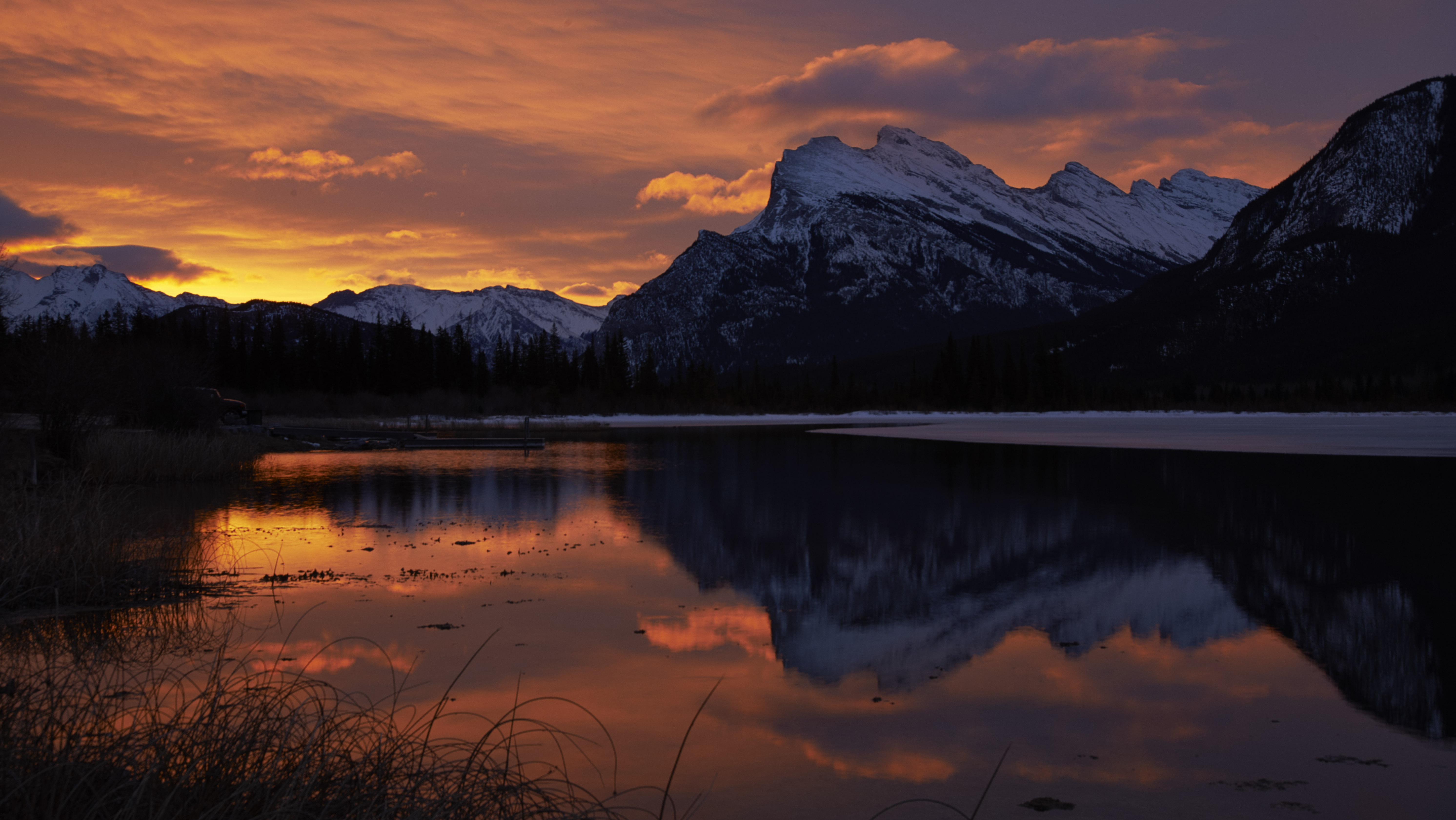 Just West of Banff Alberta